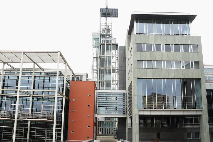 Klangturm in Sankt Pölten.